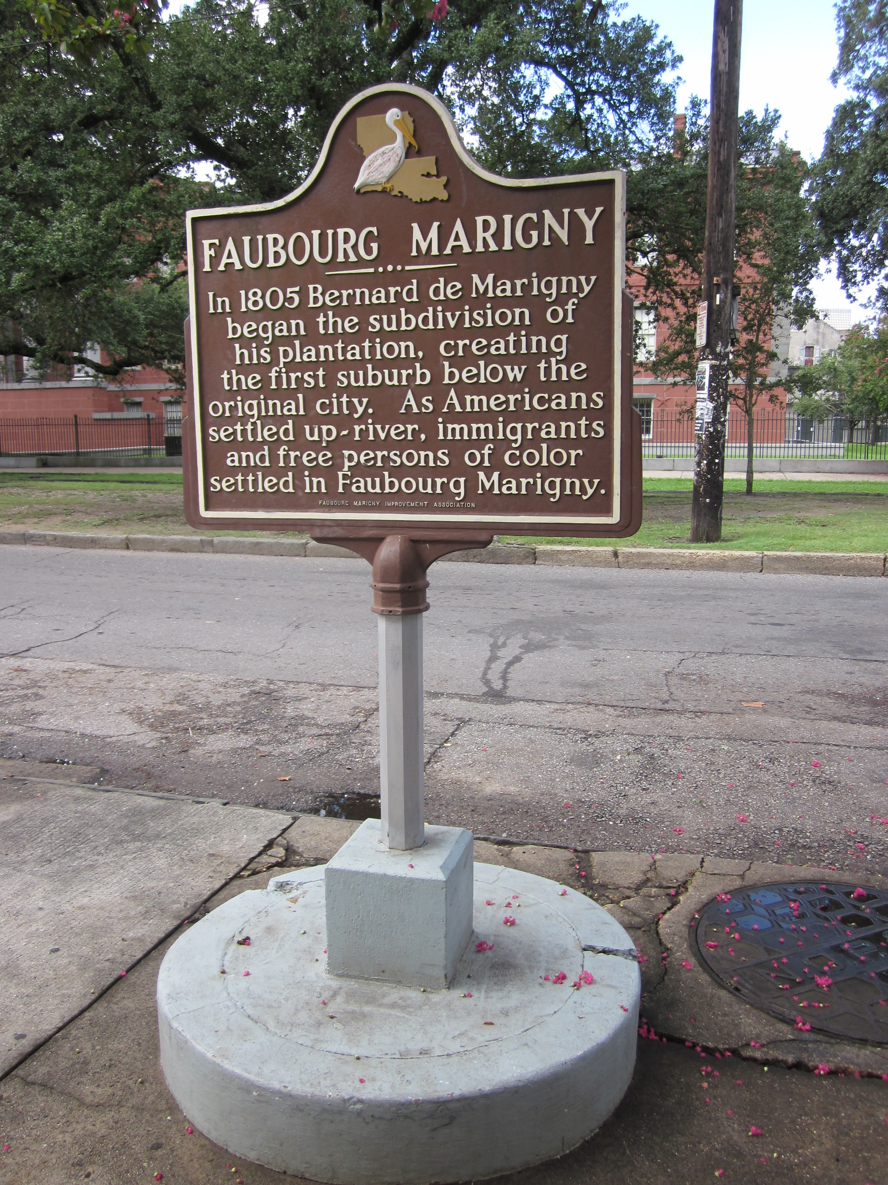 Sign on Esplanade Avenue near the intersection of Frenchmen Street. Opposite side of sign shown at File:Faubourg-MarignySign.JPG (by request [1])